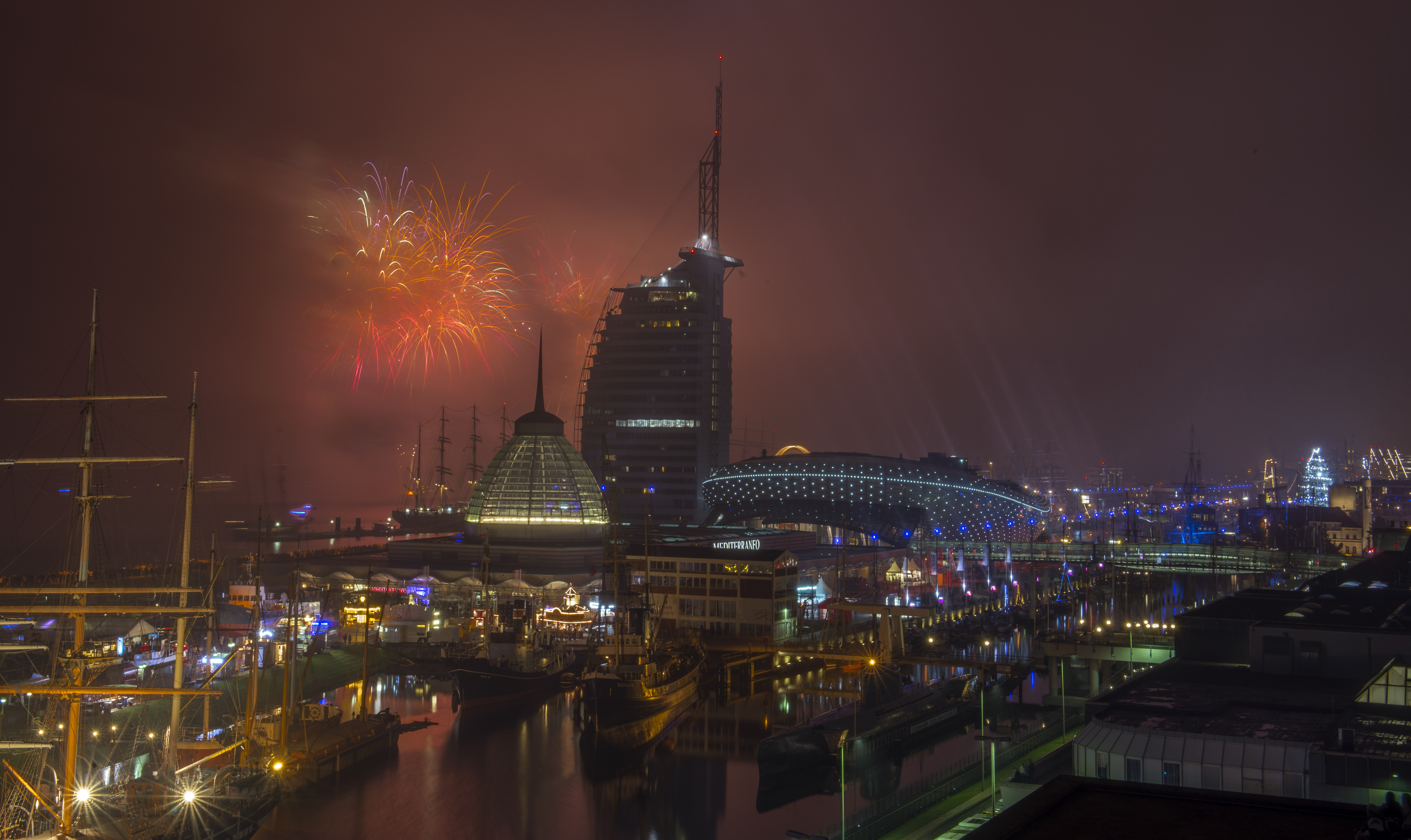 Final firework during SAIL 2015 in Bremerhaven, Germany; View along old and new harbor, Mediterraneo, Hotel Sail City and Klimahaus in the center